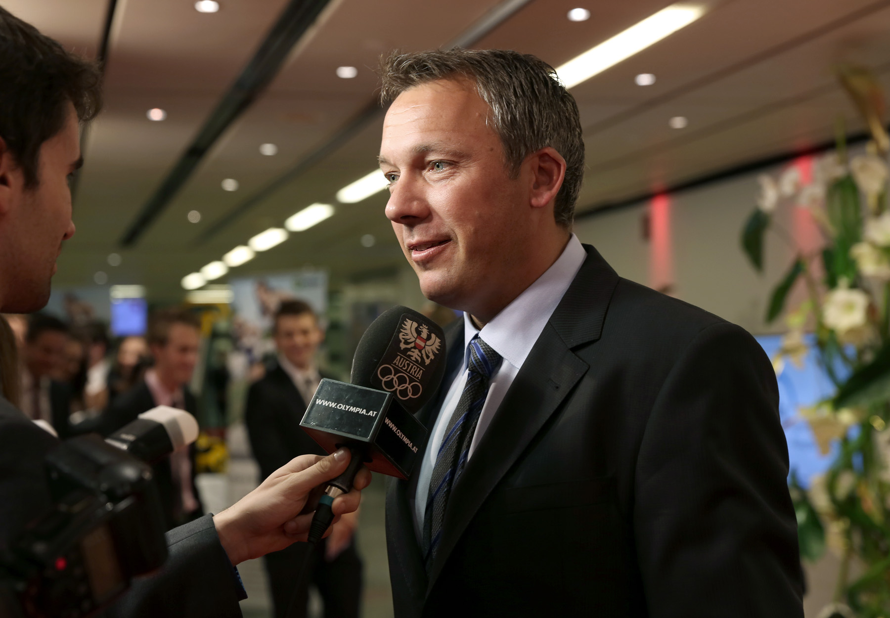 Fritz Strobl at the award show for the Austrian Sportspersonalities of the year 2013 at Austria Center Vienna (Vienna, Austria).